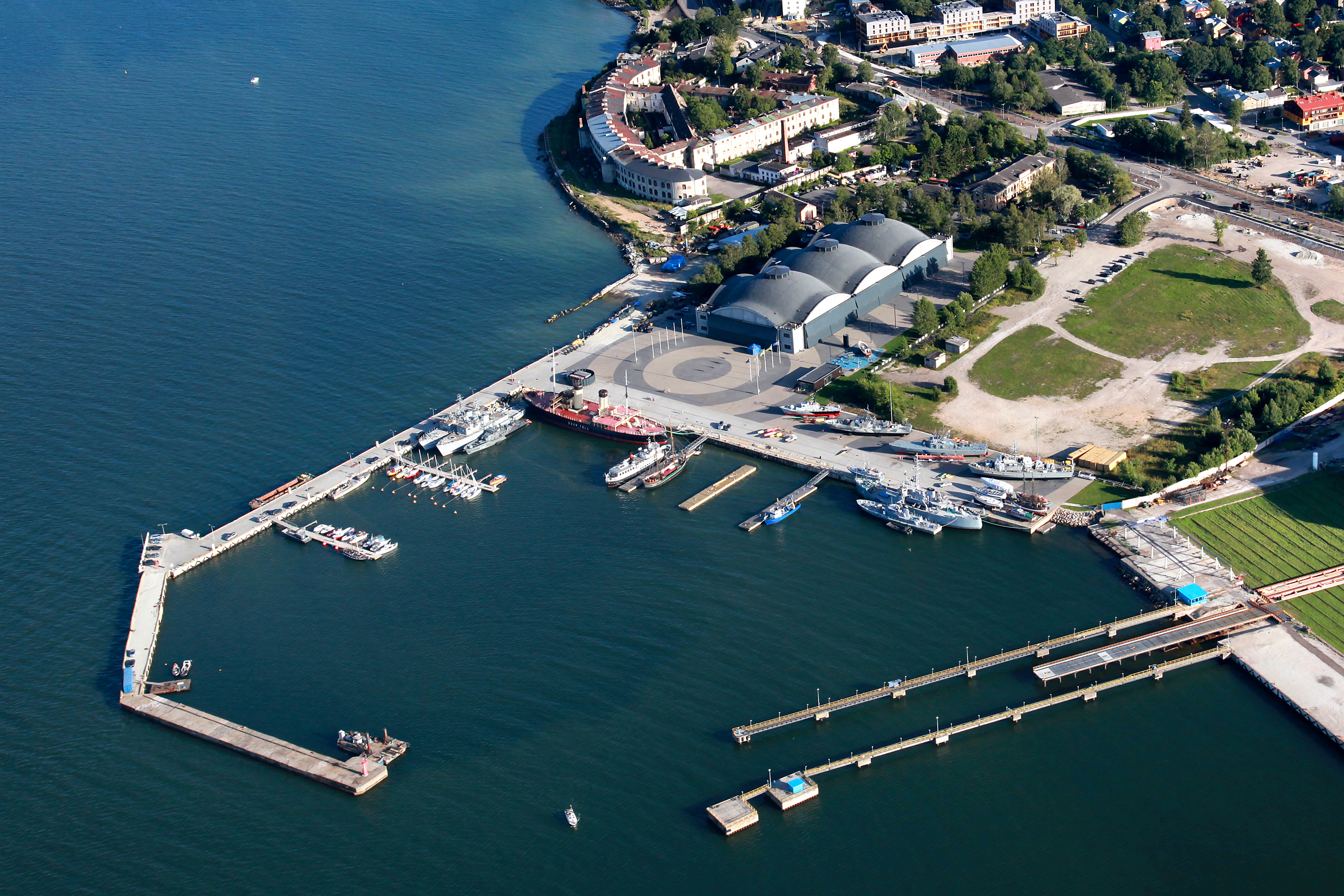 Tallinn aeroplane harbour hangars. There are also Patarei prison (heritage monument no 8485) and icebreaker Suur Tõll (no 22267).